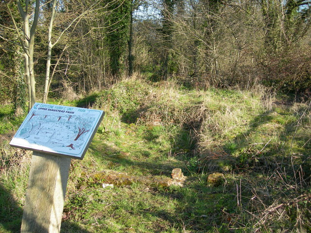 Upper Shawstead Farm. This used to be a farmhouse, but is now just a ruin. It is part of Capstone Farm Country Park but because it is some distance from the car park this is one of the less visited corners. See the accompanying supplemental for a closer view of the sign.